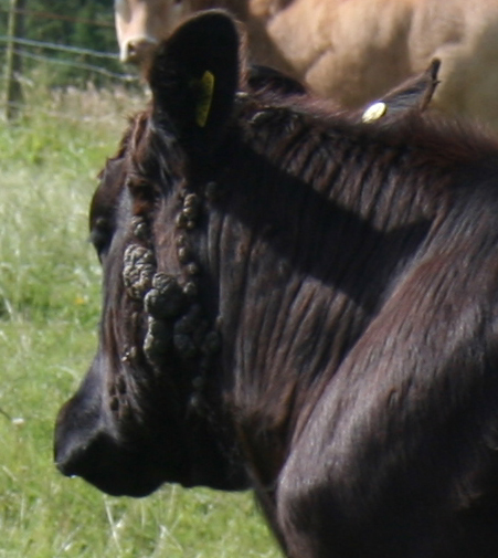 Cow with cutaneous facial warts. Photograph taken near Tegg's Nose, Cheshire